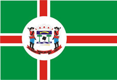 Flag of Piraí do Sul.